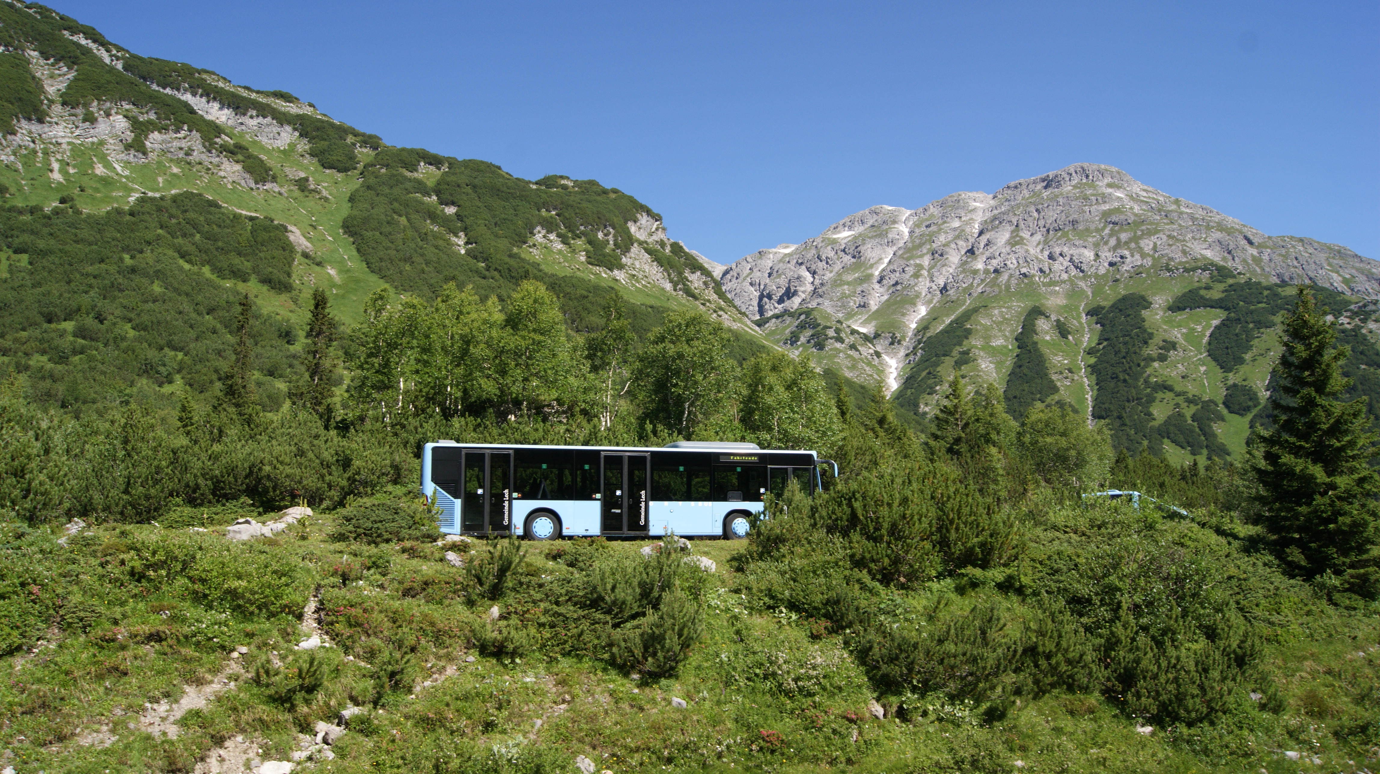 Hiking bus to the Formarinsee of the local bus line in Lech, Vorarlberg, Austria.